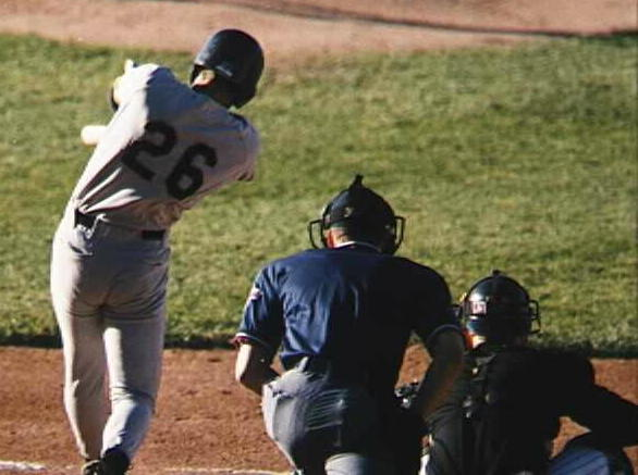 Brandon Harper (left) of the Kane County Cougars swings at a pitch against the Michigan Battle Cats during a 1998 game in Battle Creek, Michigan.